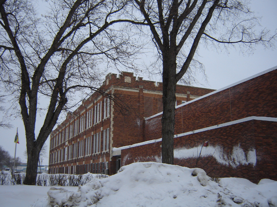 Wilson School, City Park, Core Neighbourhoods SDA, Saskatoon, Saskatchewan, Canada. From 1994 to 2011 this was the site of the First Nations University Saskatoon Campus.